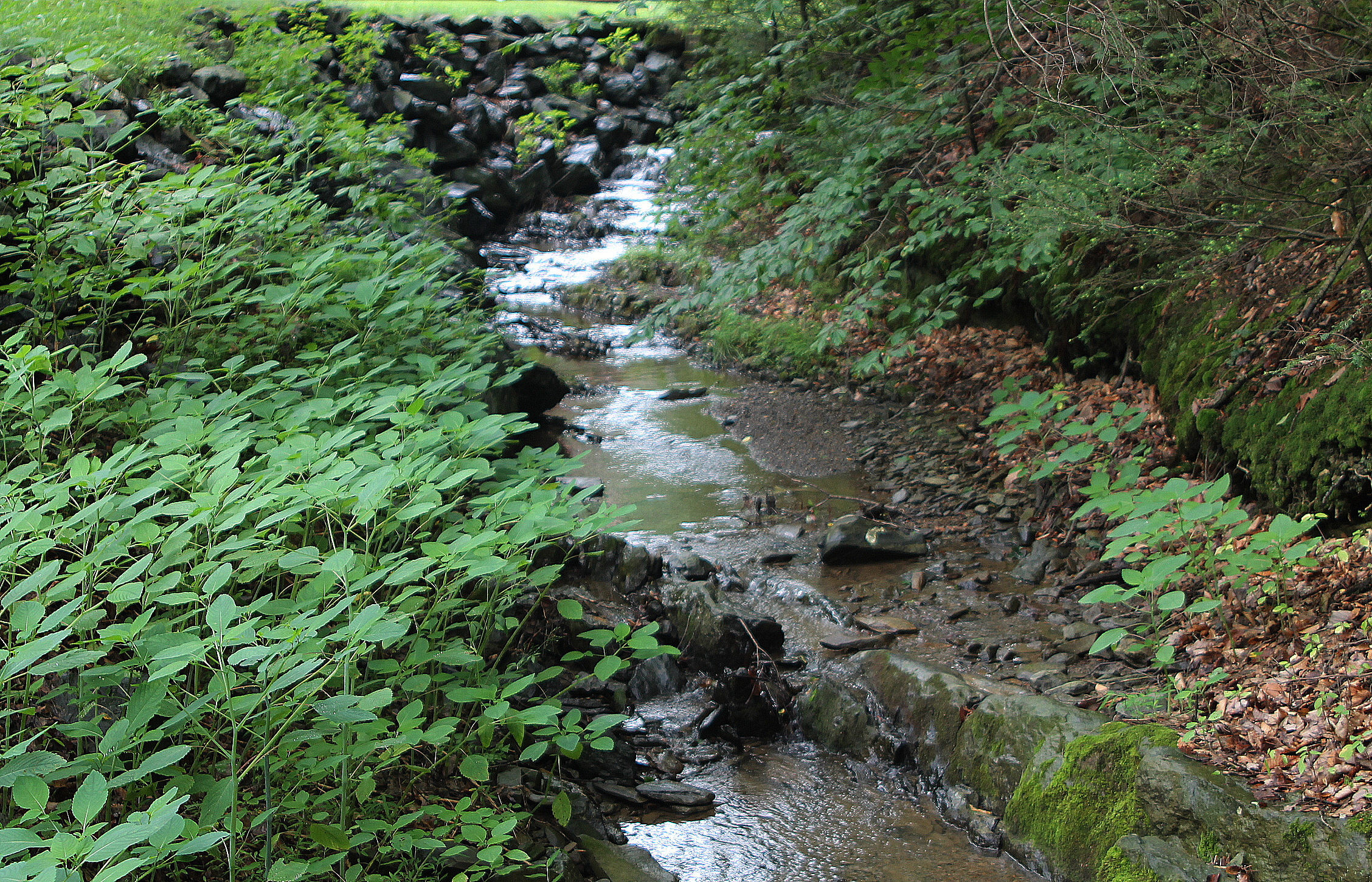 Toby Run